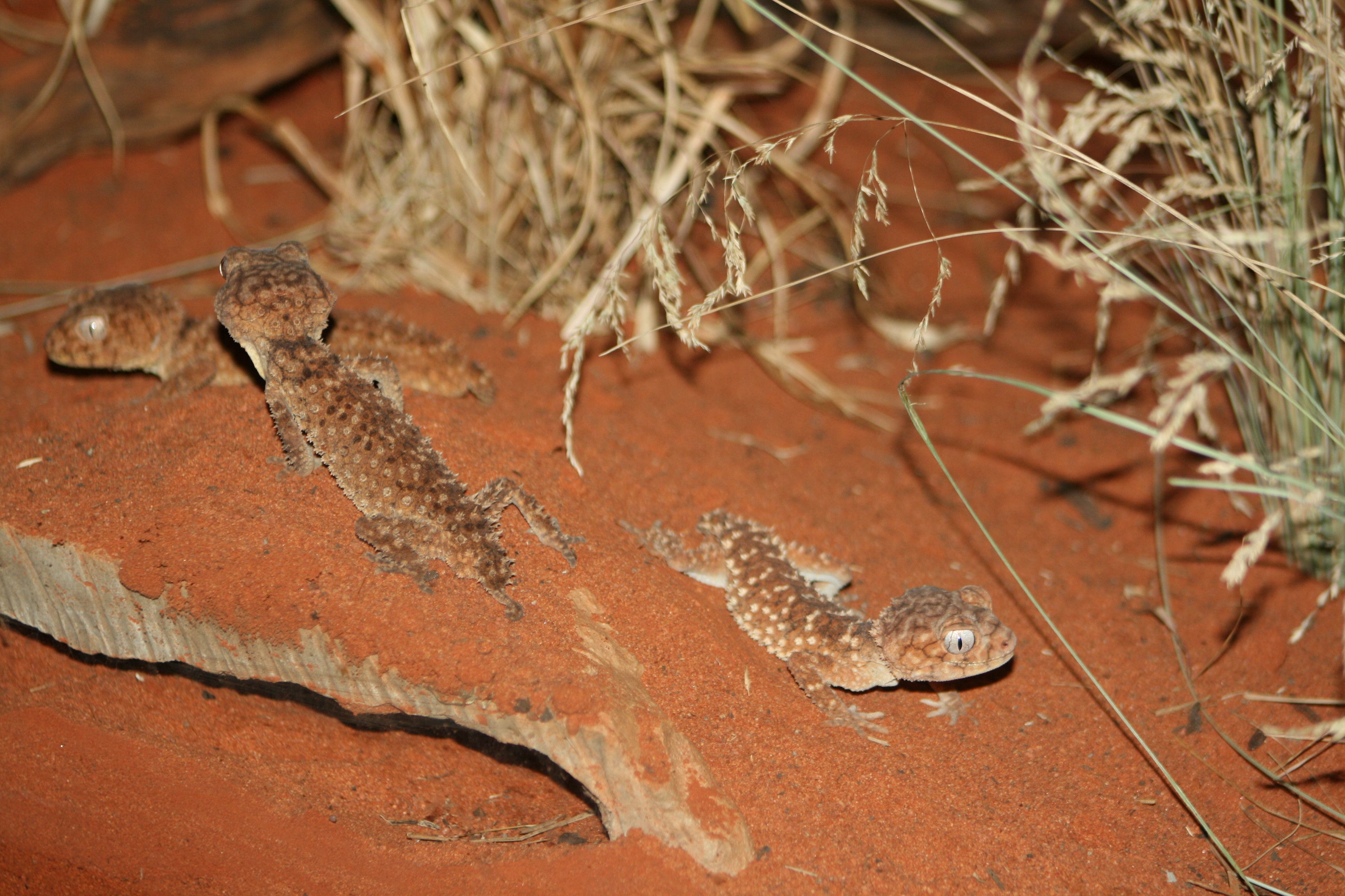 Rough knob-tailed gecko (Nephrurus amyae), Sydney's WildLife Zoo, Australia